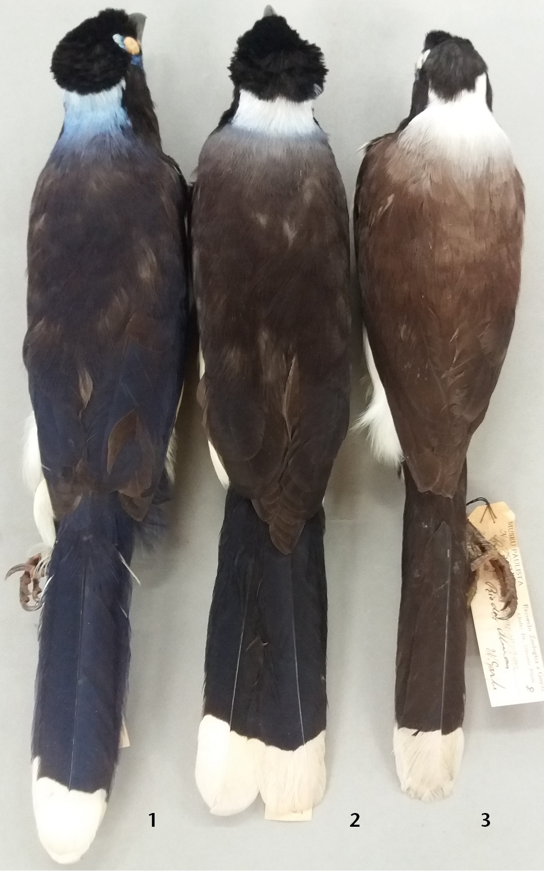 Figures 1–3; Hybrid MZUSP 64191 (2) between C. c. chrysops MZUSP 26041 (1) and C. cyanopogon MZUSP 27910 (3). Back and wings are brownish, resembling C. cyanopogon. The crest feathers have the typical C. c. chrysops shape, but nape coloration is lighter, almost completely white like C. cyanopogon.